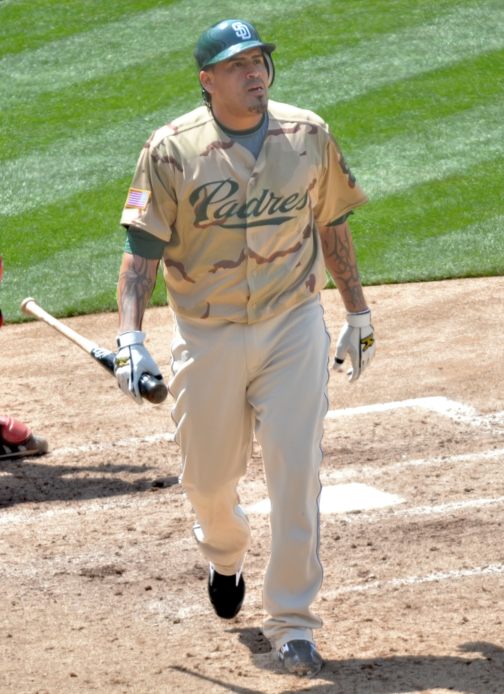 Henry Blanco